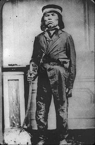 Chief Chetzemoka posing for photograph with sword in hand. Photograph most likely taken on the Olympic Peninsula of Washington